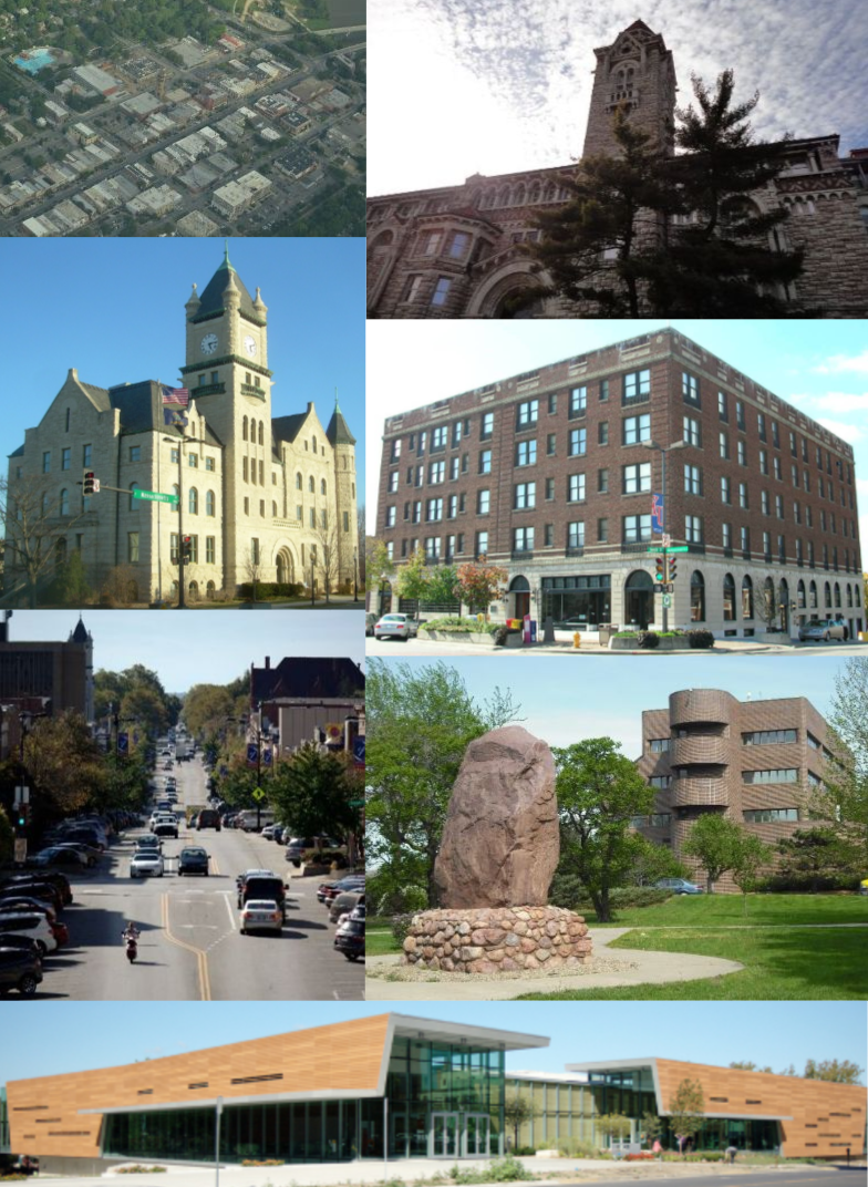 Lawrence, Kansas. The Eldridge Hotel. Dyche Hall. University of Kansas. Douglas County Courthouse. Lawrence Public Library. Just a montage of some of the various places in Lawrence. If cities like Topeka can get one, why not Lawrence?